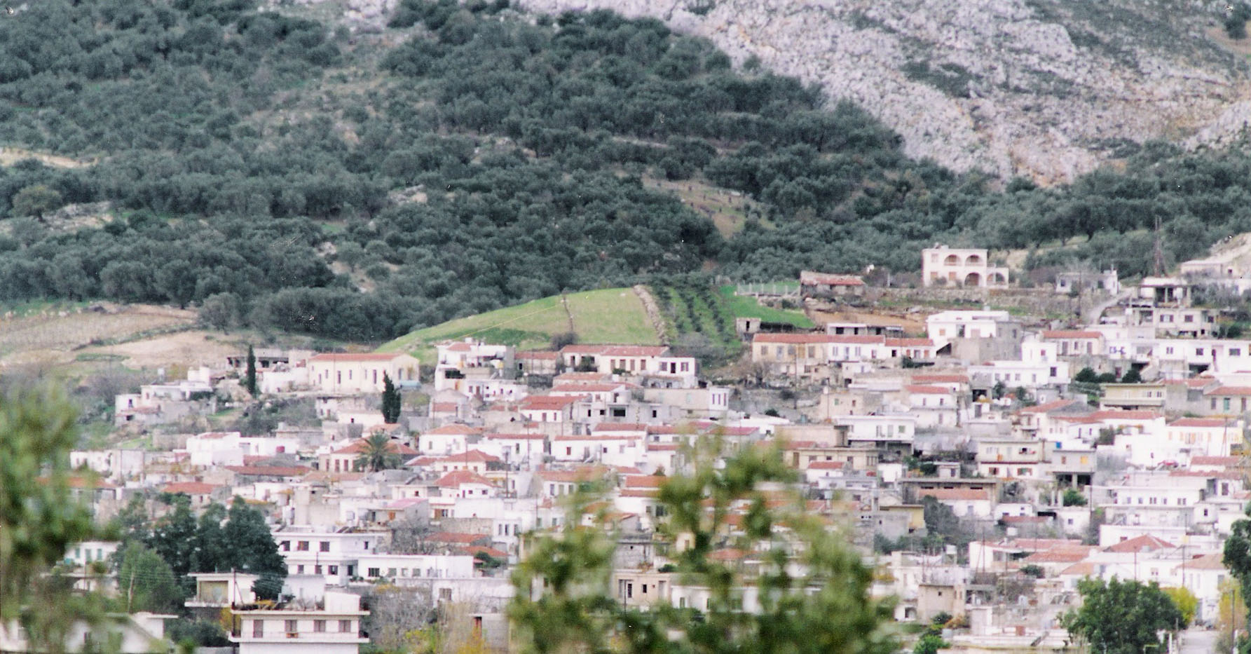 Kato Asites, village in Herakleio Prefecture, Greece